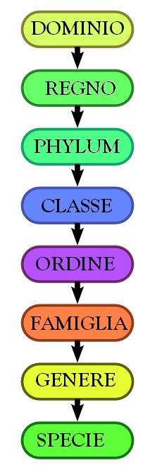 Diagram of biological classification with no text